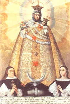 Juan José Fernández Campero and Juana Clemencia de Ovando, photo of a picture (work of art) taken in Principal church of Cochinoca. The Marqueses del Valle del Toxo and image of Nuestra Señora de la Almudena.